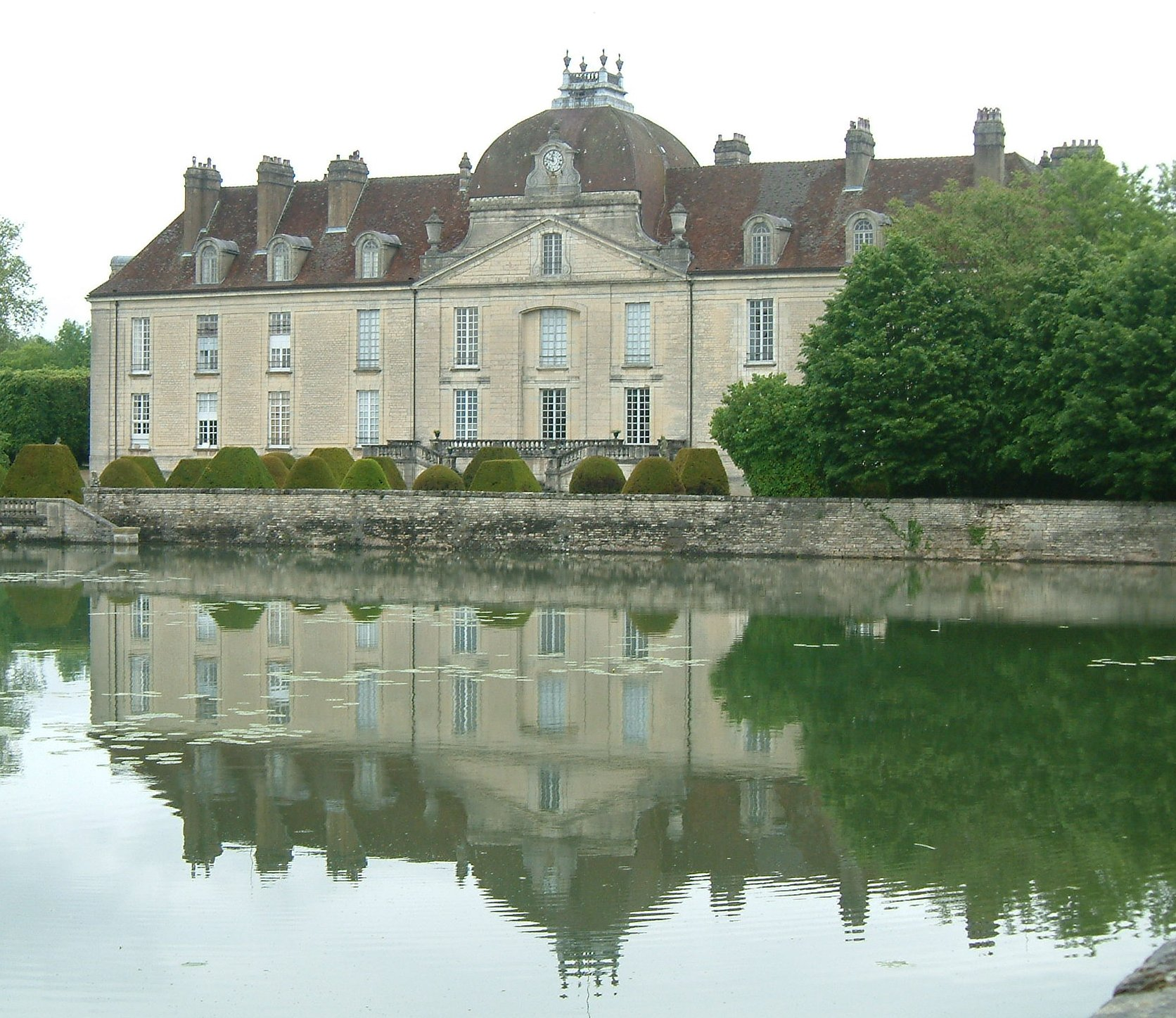 Fontaine-Française castle, Fontaine-Française, Burgundy, FRANCE.